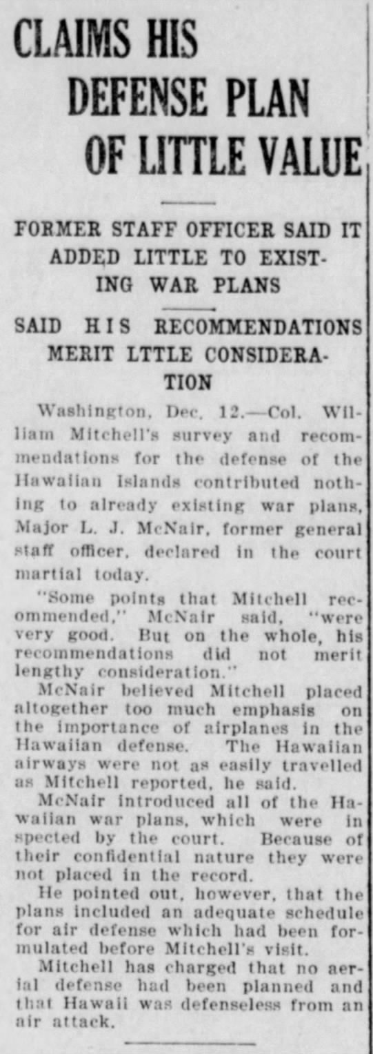 Lesley J. McNair testimony at 1925 Billy Mitchell court-martial